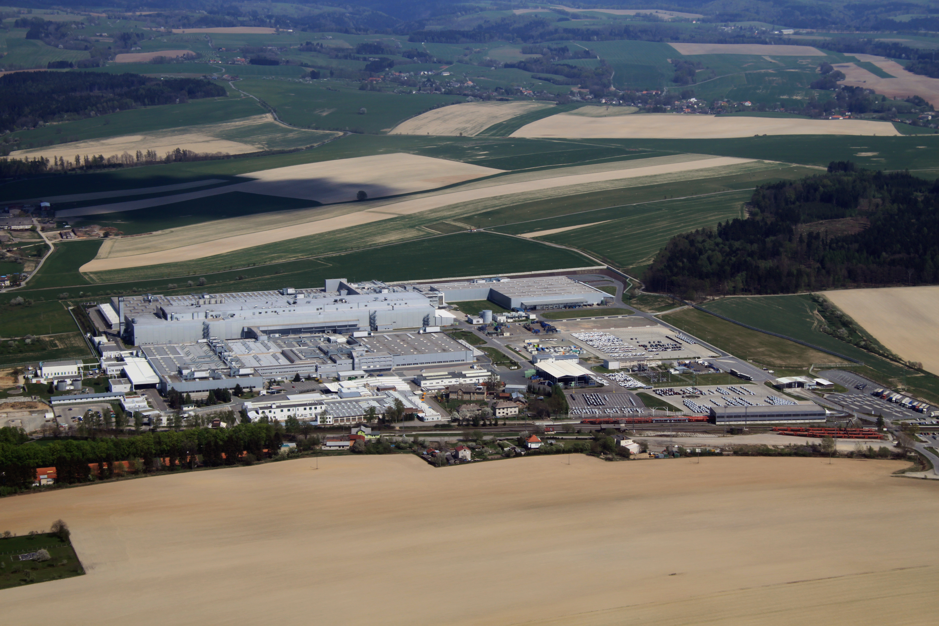 Škoda car producing factory near village Kvasiny and town Rychnov nad Kněžnou from air, vilage Lukavice on background, eastern Bohemia, Czech Republic